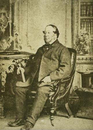 George Shillibeer builder and operator of the first Omnibus in England.